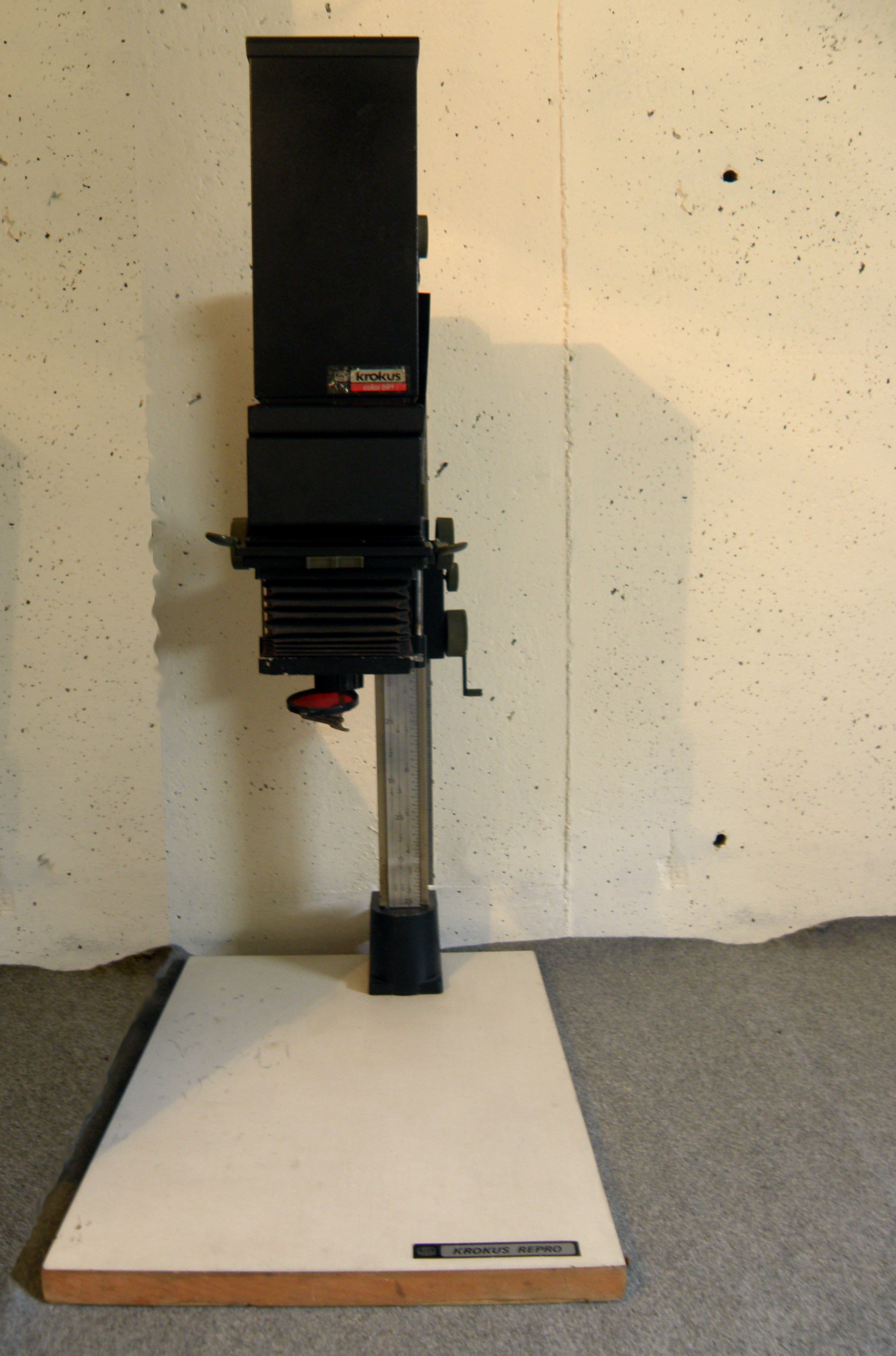 Kuruks Medium format Anlarger